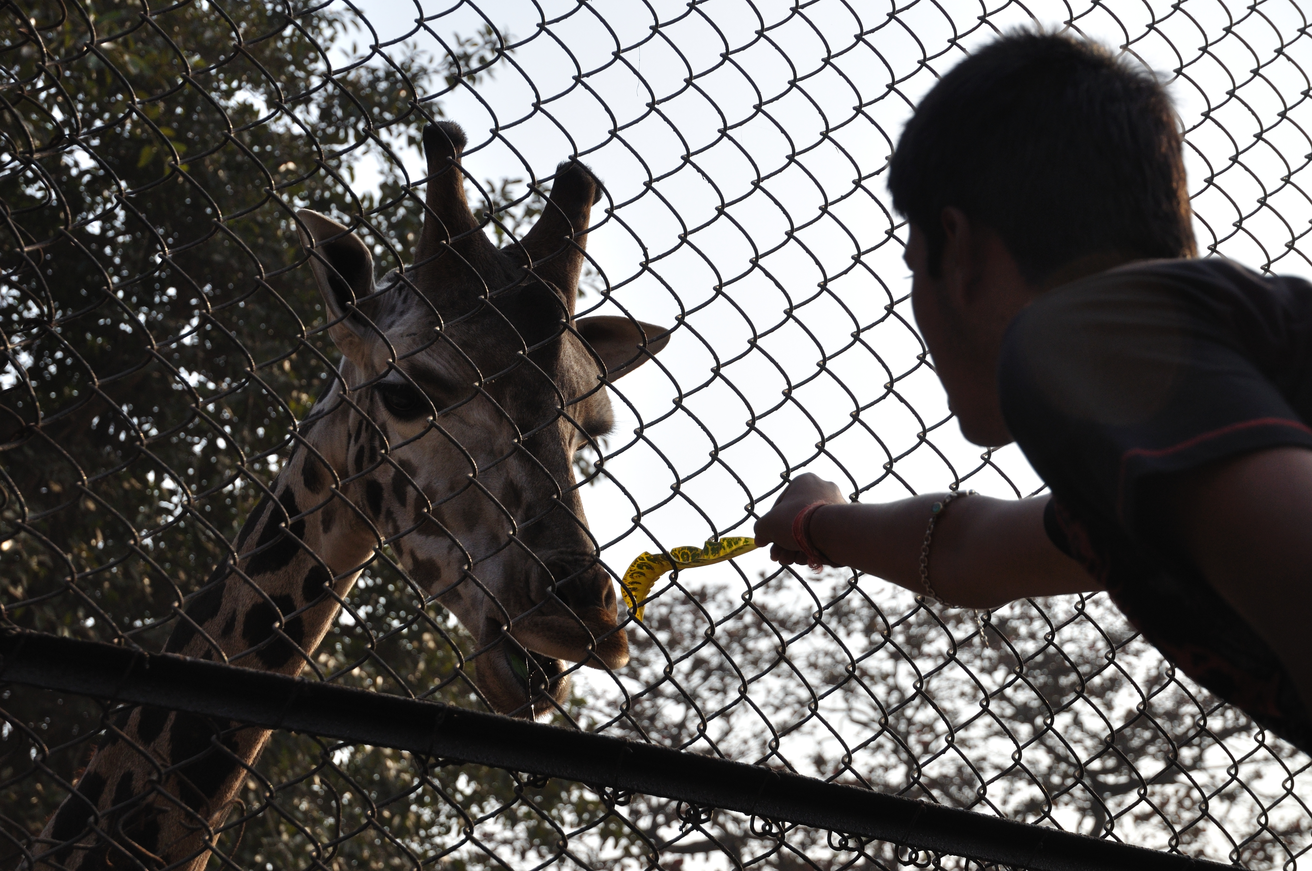 The Alipore Zoological Garden (also informally called the Alipore Zoo, Calcutta Zoo, bn: Chiriyakhana, hn: Chidiyakhana or Kolkata Zoo) is India's oldest formally stated zoological park and a big tourist attraction in Kolkata, West Bengal. It has been open as a zoo since 1876, and covers 45 acres (18 ha).